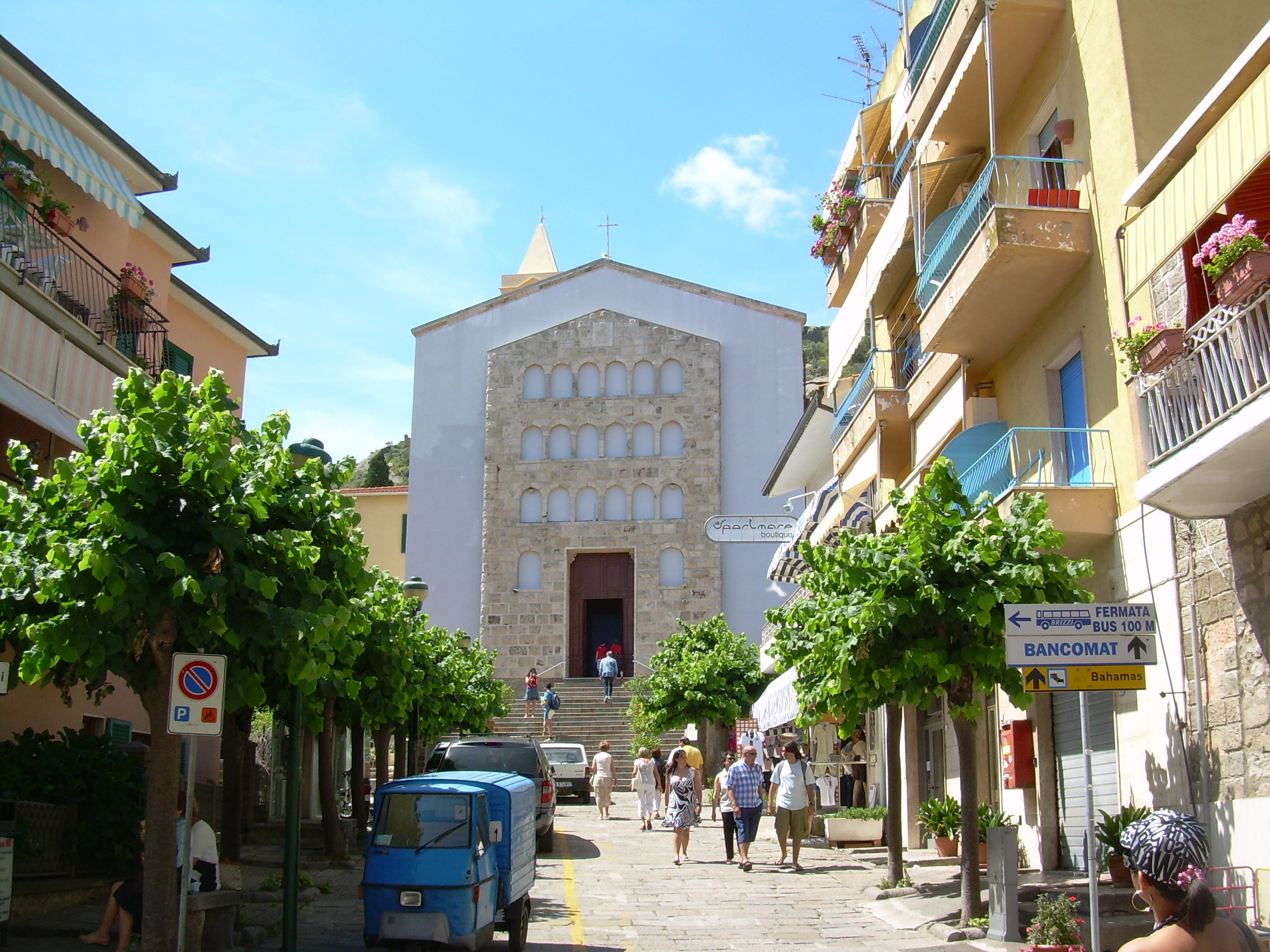 Facade of the Church Chiesa della Madonna del Giglio in Giglio Porto, Isola del Giglio, Province of Grosseto, Tuscany, Italy